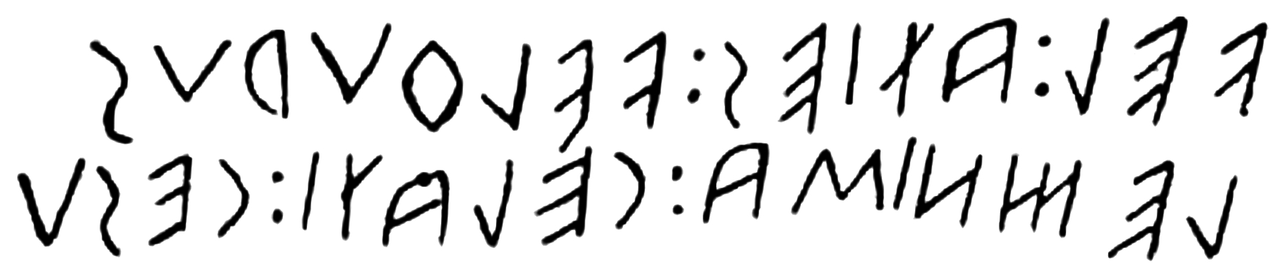 Vel Aties, son of Velthur and Lemni, lying in this cella.